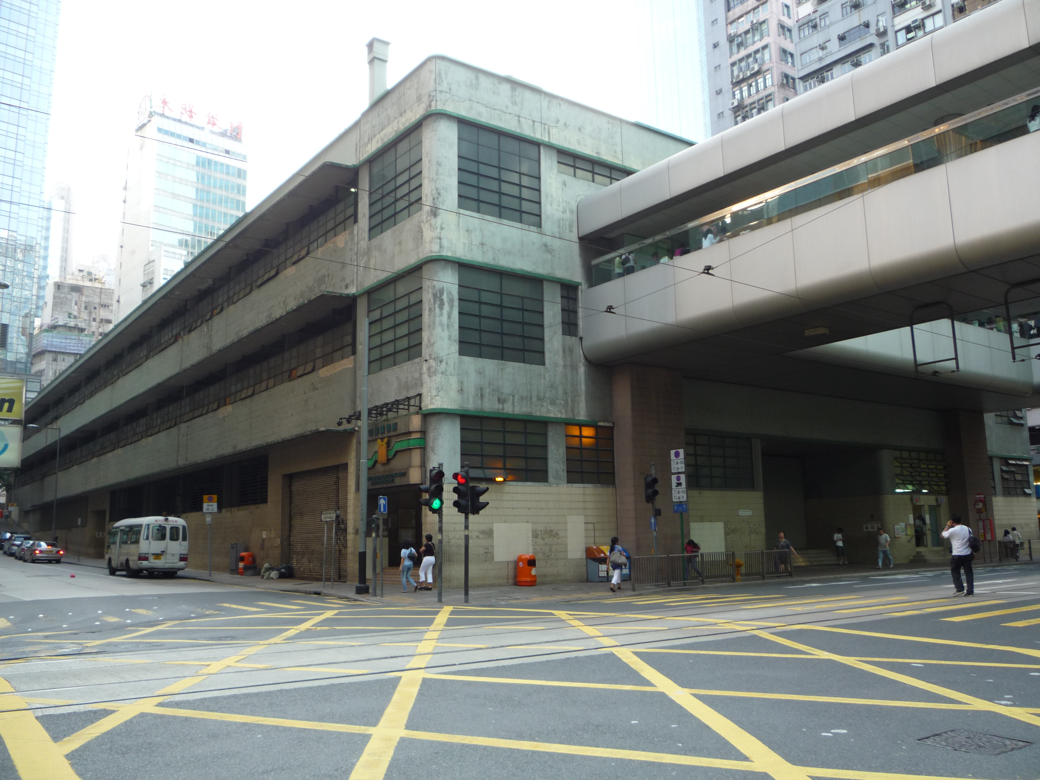 Central Market